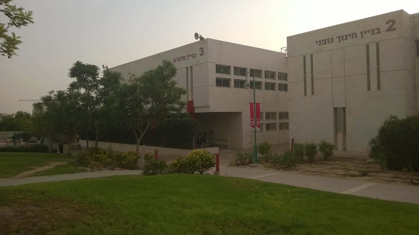 كلية كي مبنى التربية البدنية ومبنى العلوم